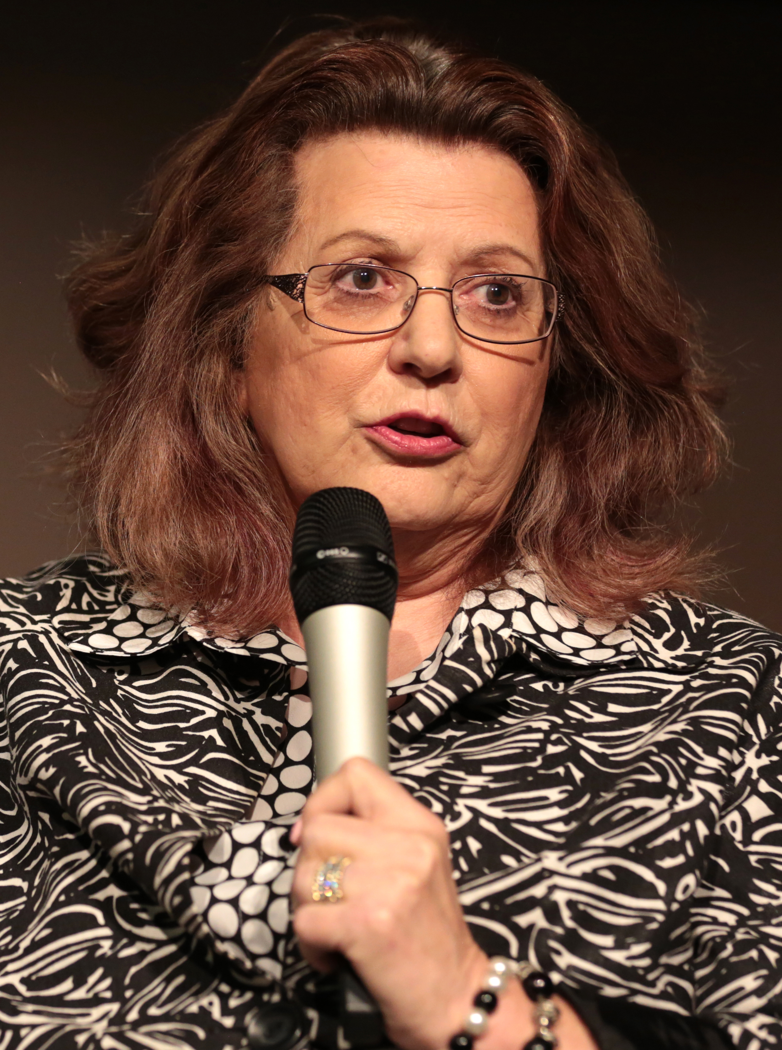 Donna Leone Hamm speaking at an event in Phoenix, Arizona